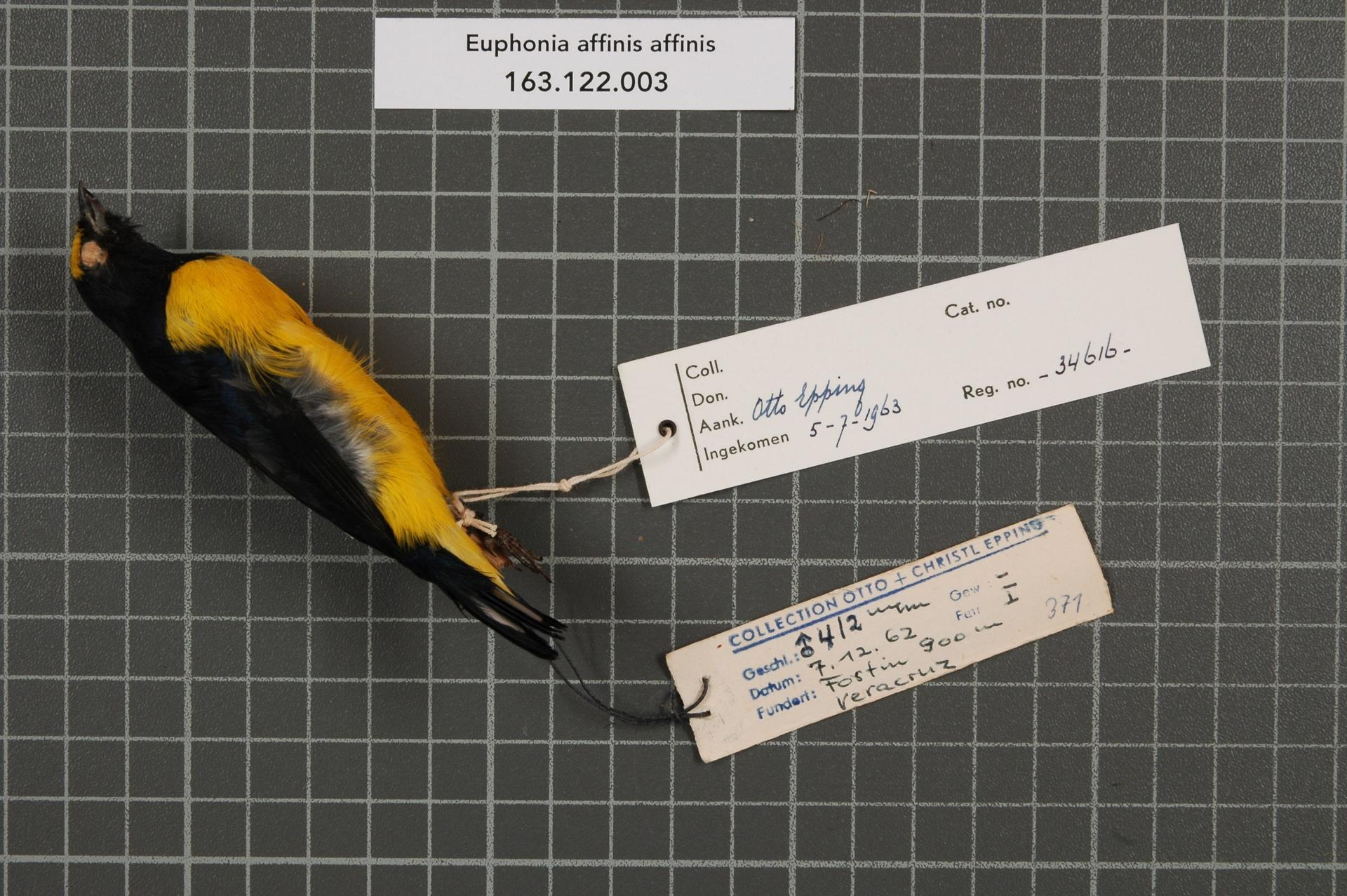 Euphonia affinis affinis (Lesson, 1842)